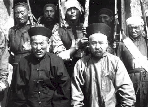 Manchu Soldiers